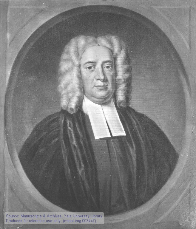 Portrait of Rev. Timothy Cutler, third rector of Yale College from 1719 to 1722. Cutler was a graduate of Harvard College, B. A. 1701. (The title 'rector' was used for the presidents of Yale College from 1701 until 1745.) Image courtesy of the Yale University Manuscripts & Archives Digital Images Database, Yale University, New Haven, Connecticut.